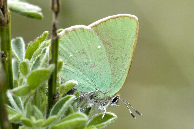 Picture taken in Commanster, Belgian High Ardennes . Species: Callophrys rubi